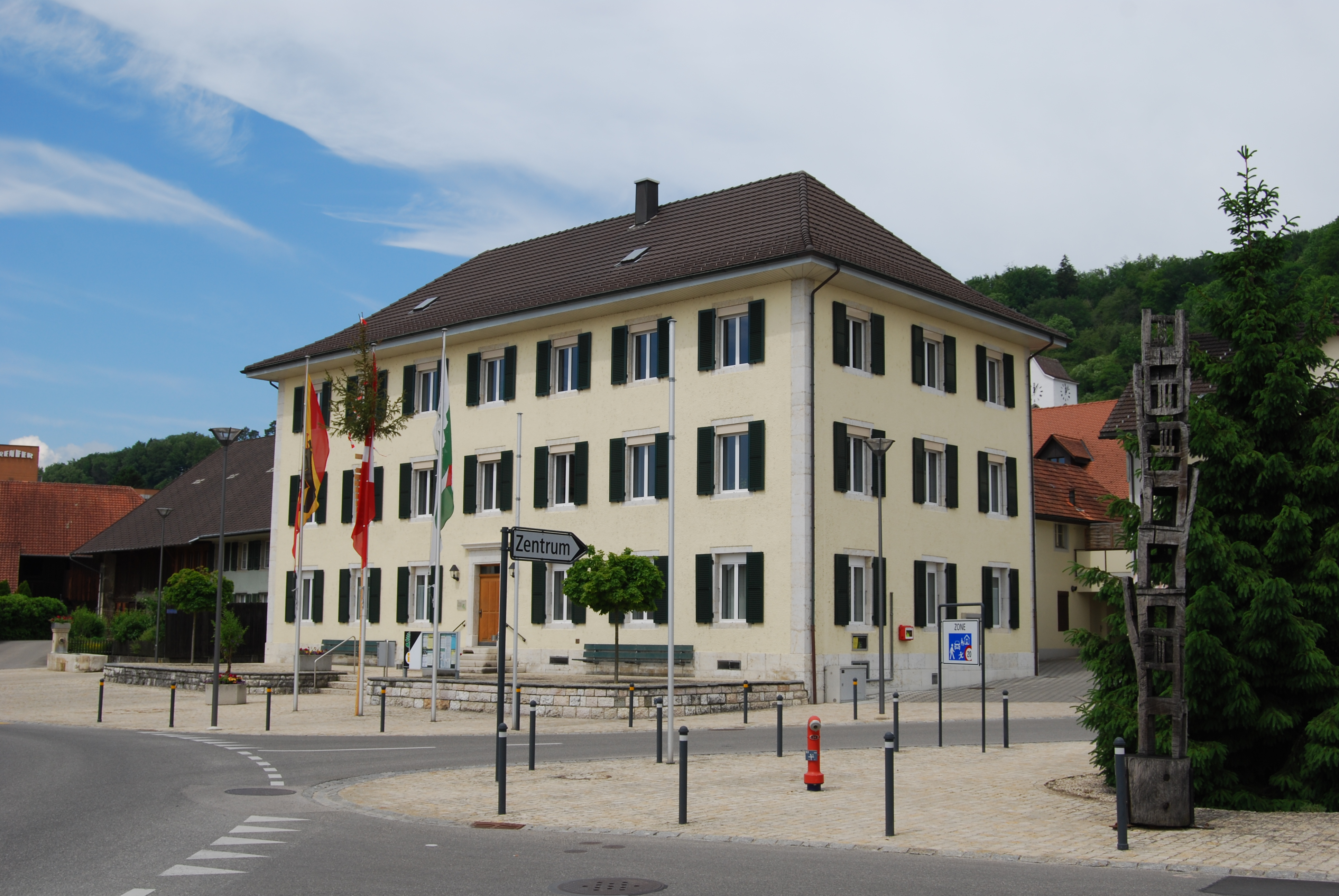 Lengnau, canton of Bern, SwitzerlandEsperanto: Lengnau, Kantono Berno, Svislando